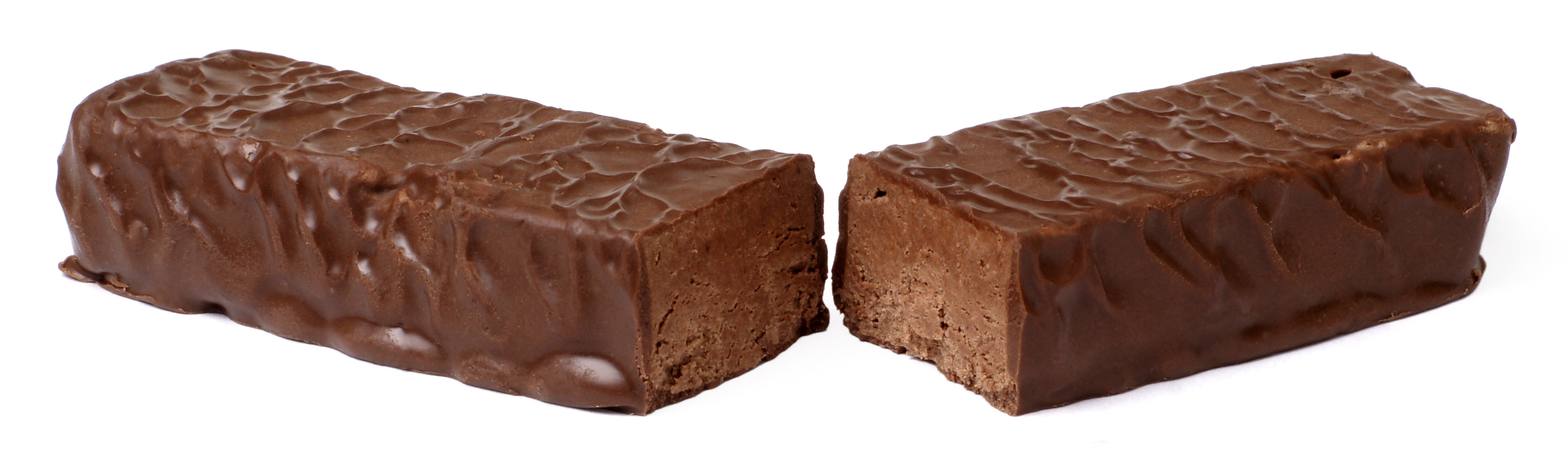 An U-No candy bar made by Annabelle Candy Company, split in half.